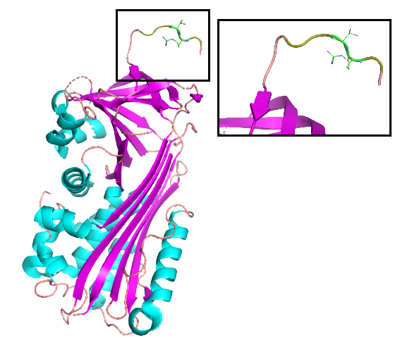 The reactive center loop (RCL) of plasminogen activator inhibitor-2 spans residues 379-383 (olive green). Proteolytic cleavage, as part of the suicide inhibition mechanism, occurs between Arg 380 (colored by element, wire representation) and Thr 381 (colored by element, wire representation).